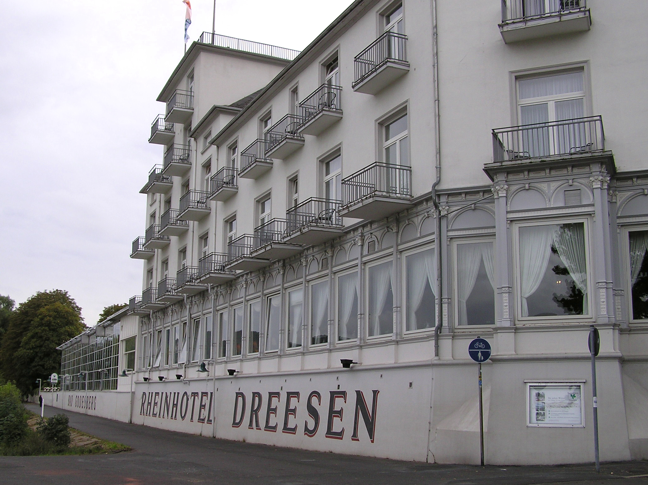 Hotel Dressen on the banks of the rhine in Rüngsdorf, a district of Bonn-Bad Godesberg, Germany.